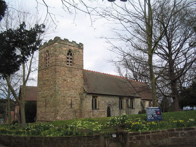 Church of All Saints, Thrumpton The churchyard offering its own flower festival - covered in daffodils and primroses.